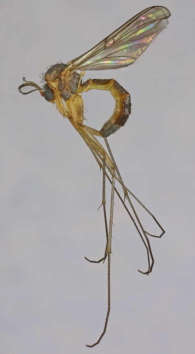 Mycomya cinerascens, Trawscoed, North Wales, May 2014